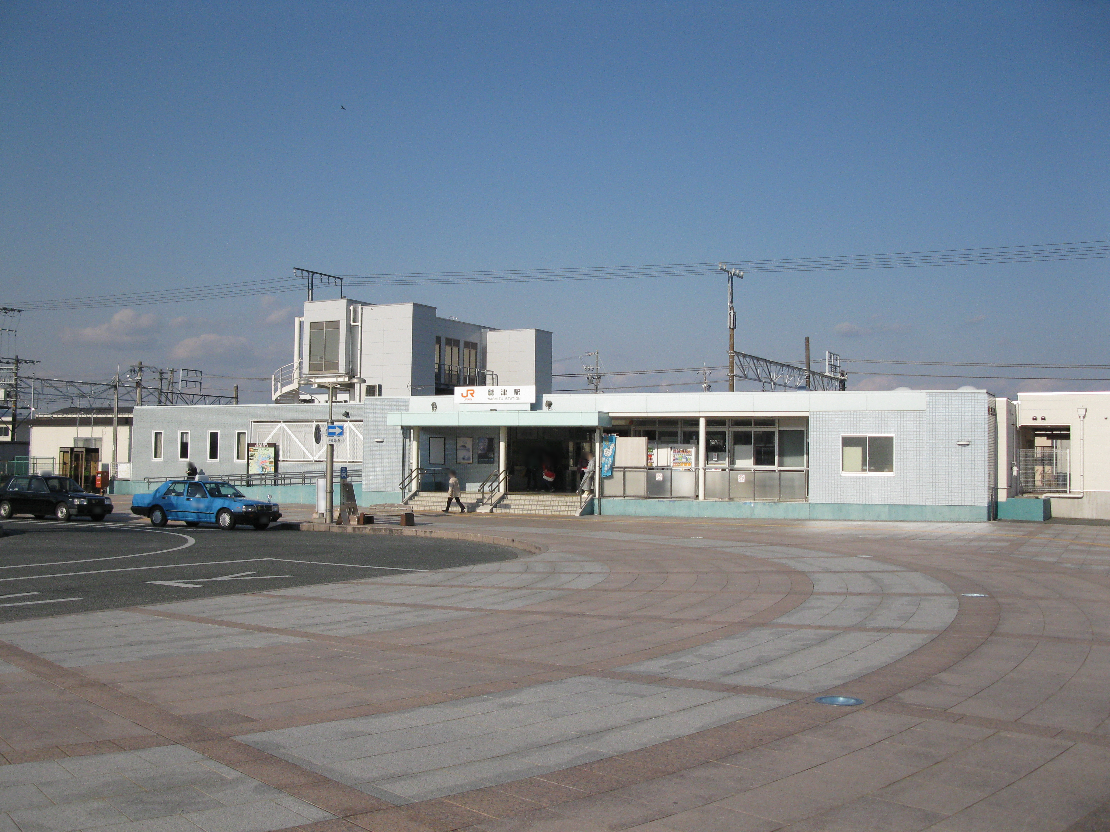 Washizu Station building (Central Japan Railway(JR Central) Tōkaidō Main Line)